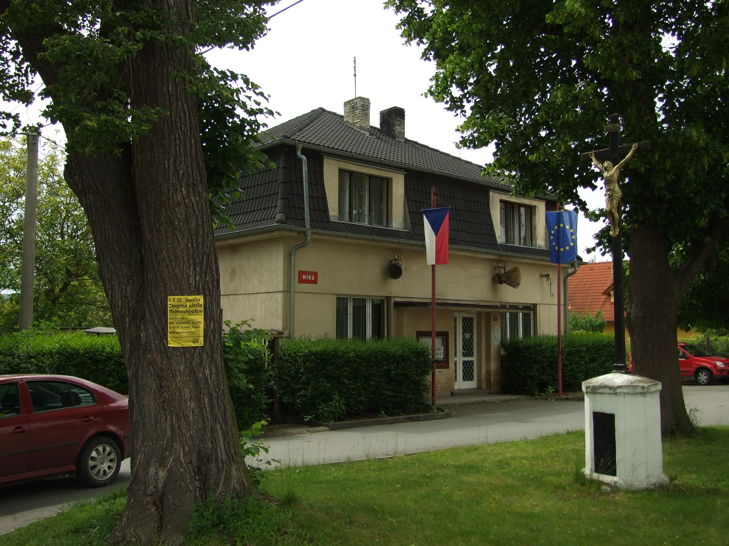 Malé Kyšice, Kladno District, Central Bohemian Region, the Czech Republic. A municipal office during EU election.